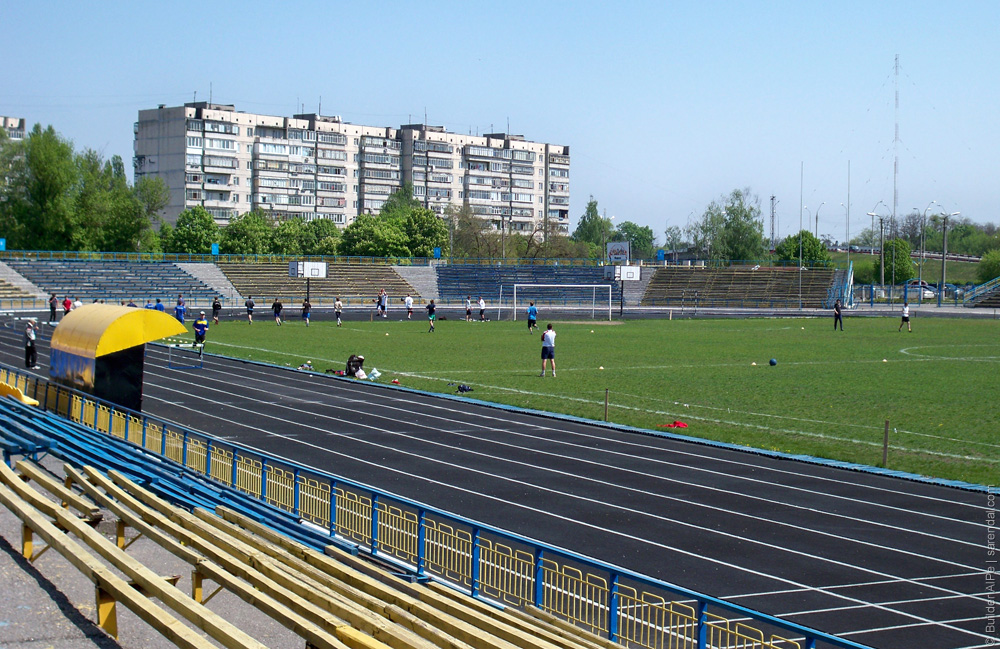 Spartak Stadium in Brovary, Kyiv Oblast, Ukraine